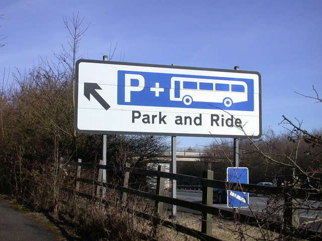 Cycle bridge over the M11 This is not a photograph of the Park and Ride sign, but the only view I could get of the Harcamlow Way bridge (since, on my bicycle, I was not motorway traffic). It is taken from the foot of the western bridge ramp.